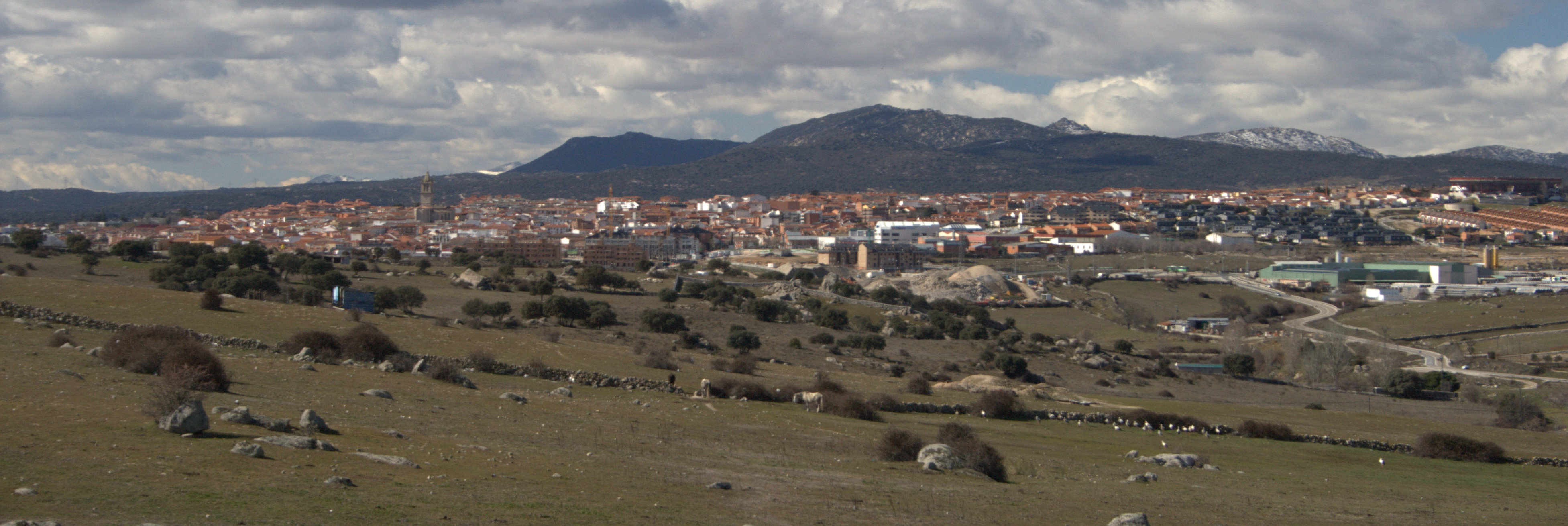 Colmenar Viejo (Madrid), Spain, panoramic from the east.